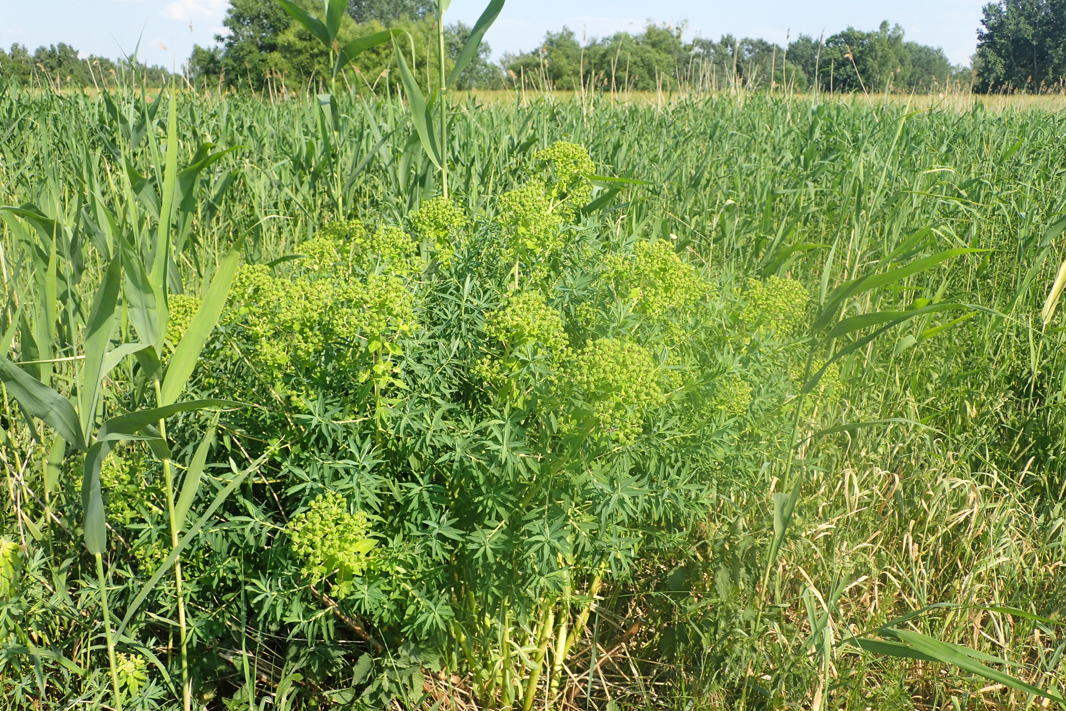 Euphorbia palustris on Odra river, near Bielinek, NW Poland